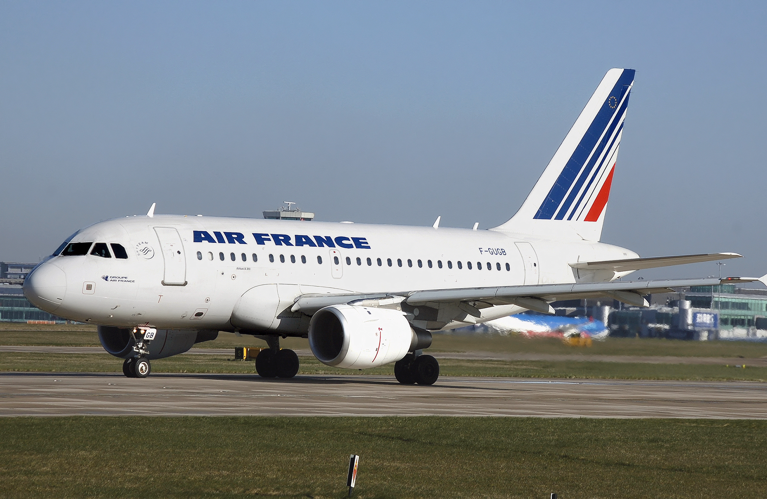 Air France A318-100 (F-GUGB) starts the takeoff run at Manchester Airport, England. Photographed by Adrian Pingstone in March 2009 and released to the public domain.